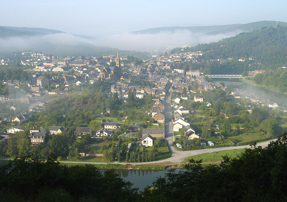 Fumay from above, from the north-east, with the morning mist. Taken by David Edgar on 2005-09-04.